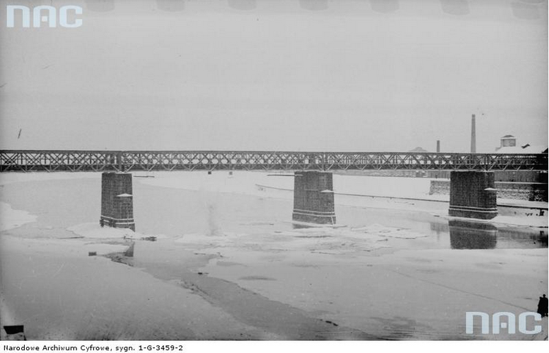 old railway bridge kraków zabłocie